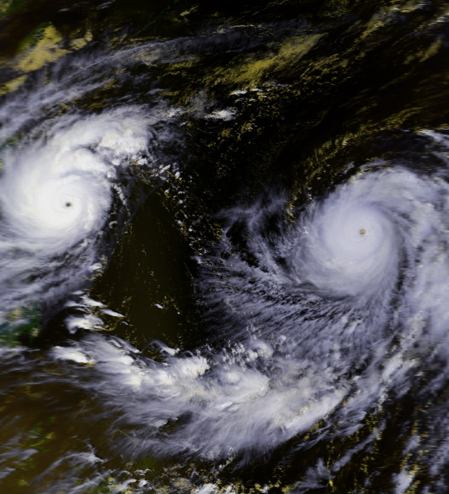 Typhoons Ivan and Joan from NOAA-14. Inventory ID: NSS.GHRR.NJ.D97291.S0338.E0532.B1442930